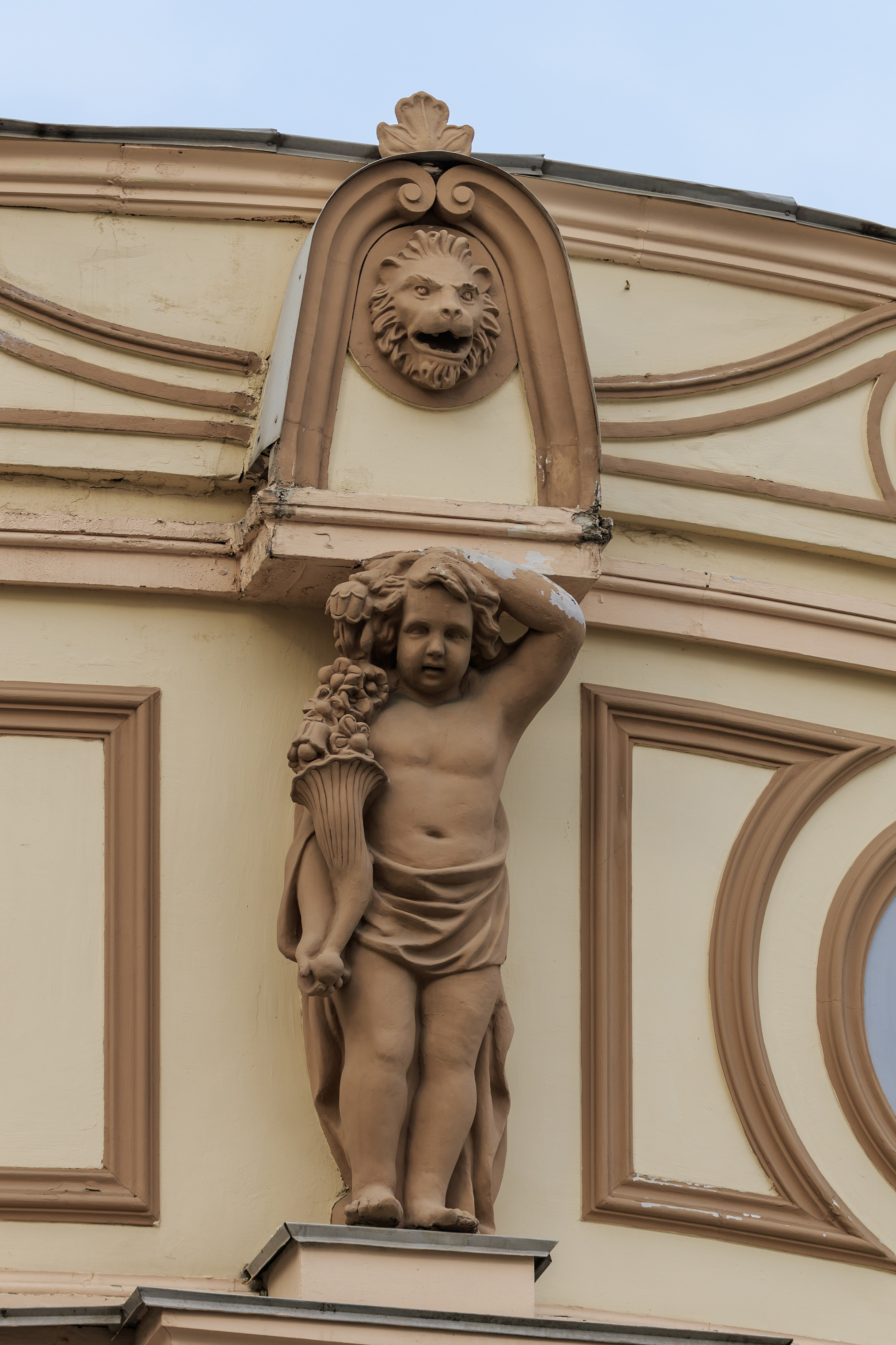 Building at 7, Kuznetsky Most. Moscow, Russia.